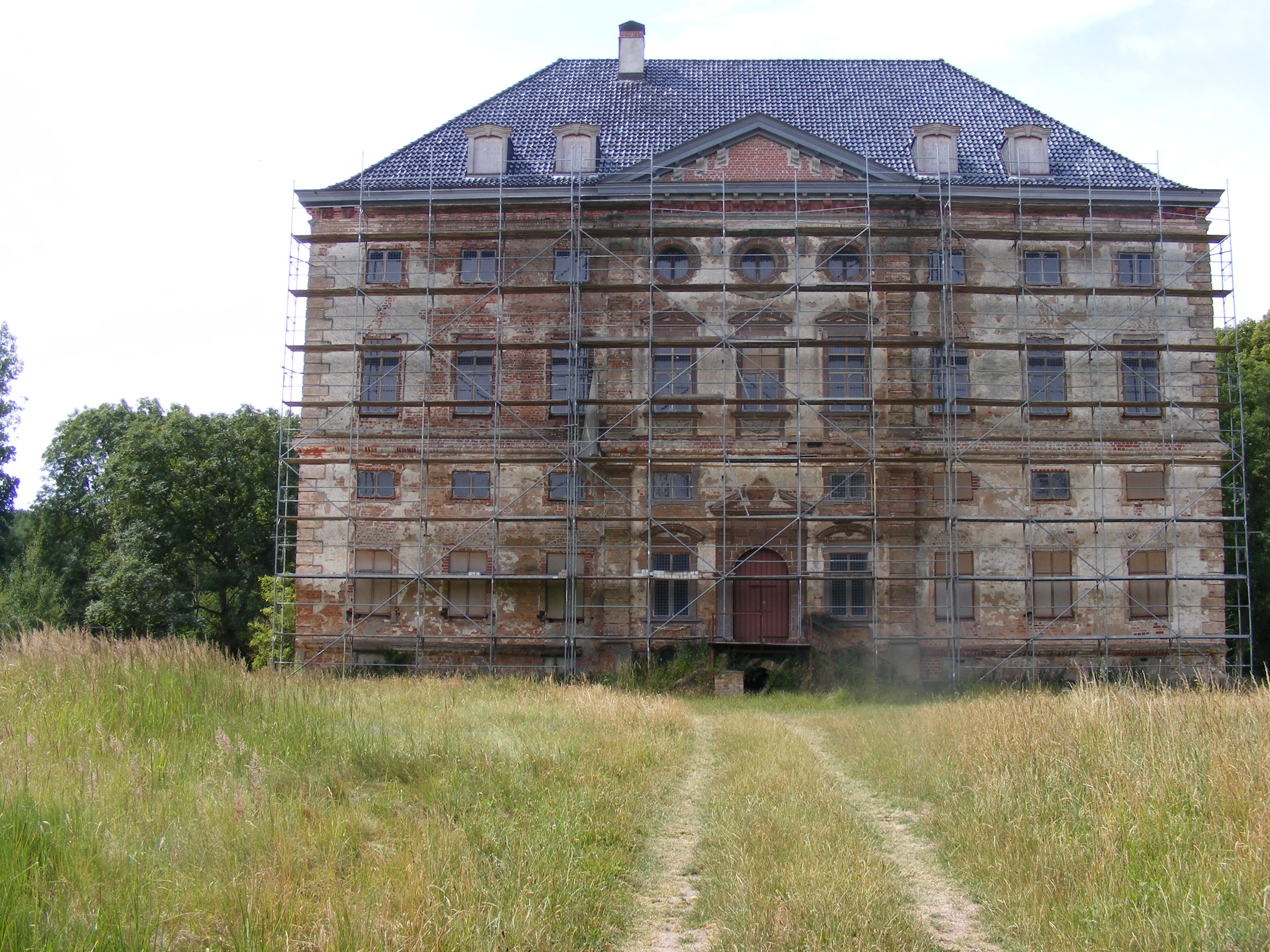 Rossewitz castle near Laage, Mecklenburg, architect Charles Dieussart.